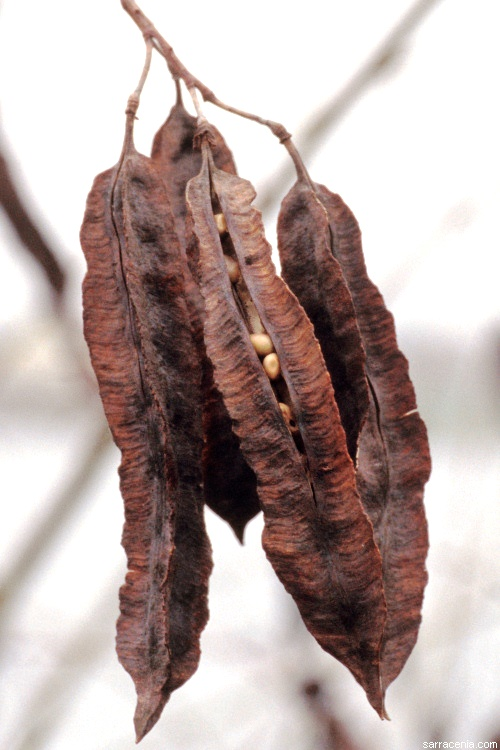 Fruit or seed pods of the species Sesbania punicea